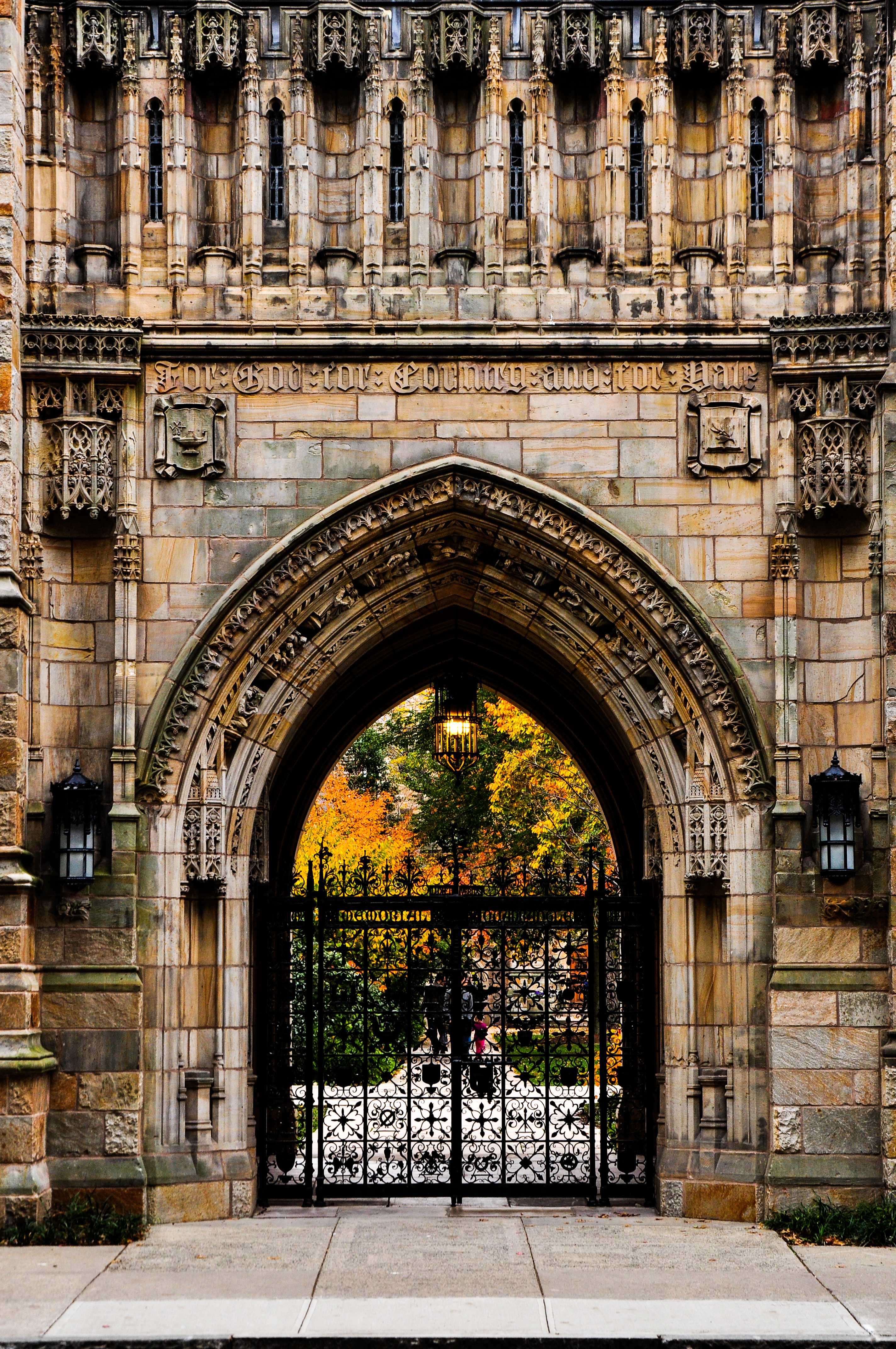 The Memorial Quadrangle Gate between High Street and Branford College's courtyard.